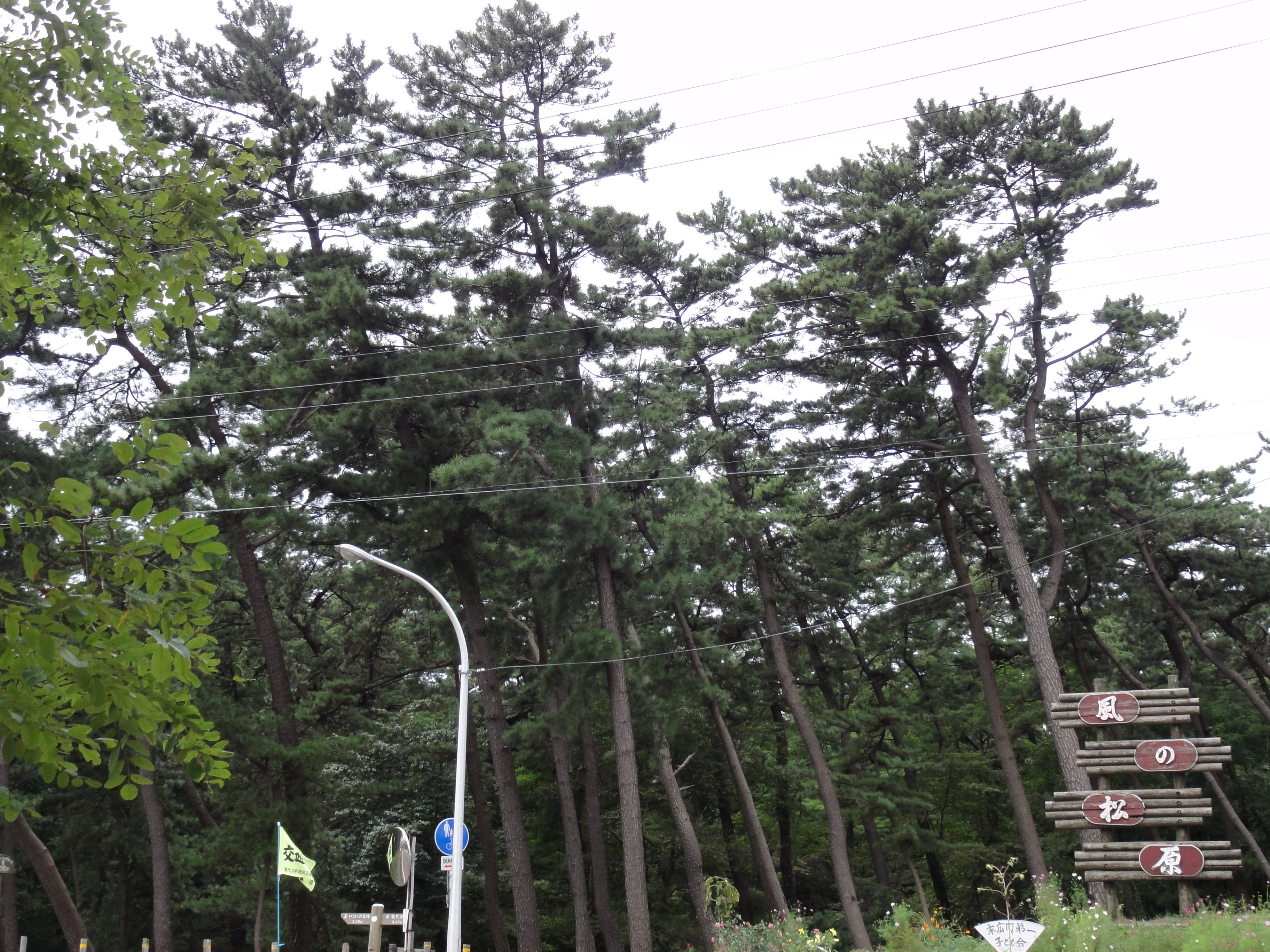 Kaze no Matsubara in Noshiro ,Akita Pref., Japan